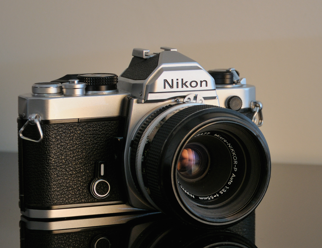 Nikon FM with Nippon Kogaku Japan Micro-NIKKOR-P 1:3.5 55mm macro lenses attached